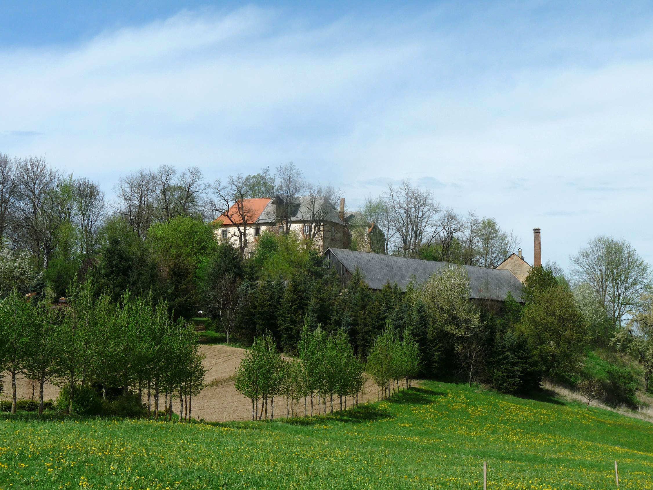 Chapel and the Opálka Fort in the village of Opálka, part of the town of Strážov, Klatovy District, Czech Republic